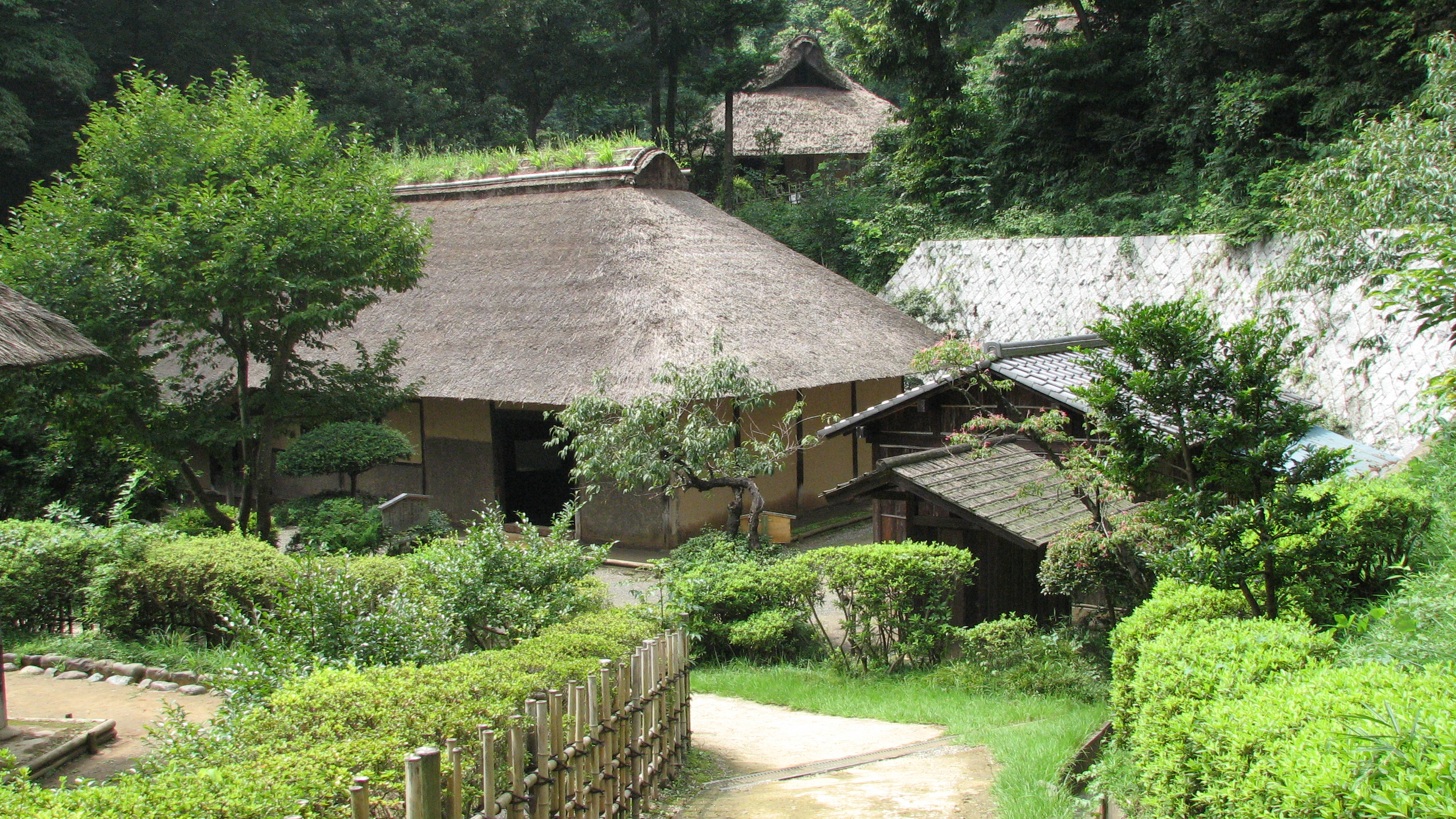 Houses in the Nihon Minka-en open-air Museum, in Kawasaki, Japan.